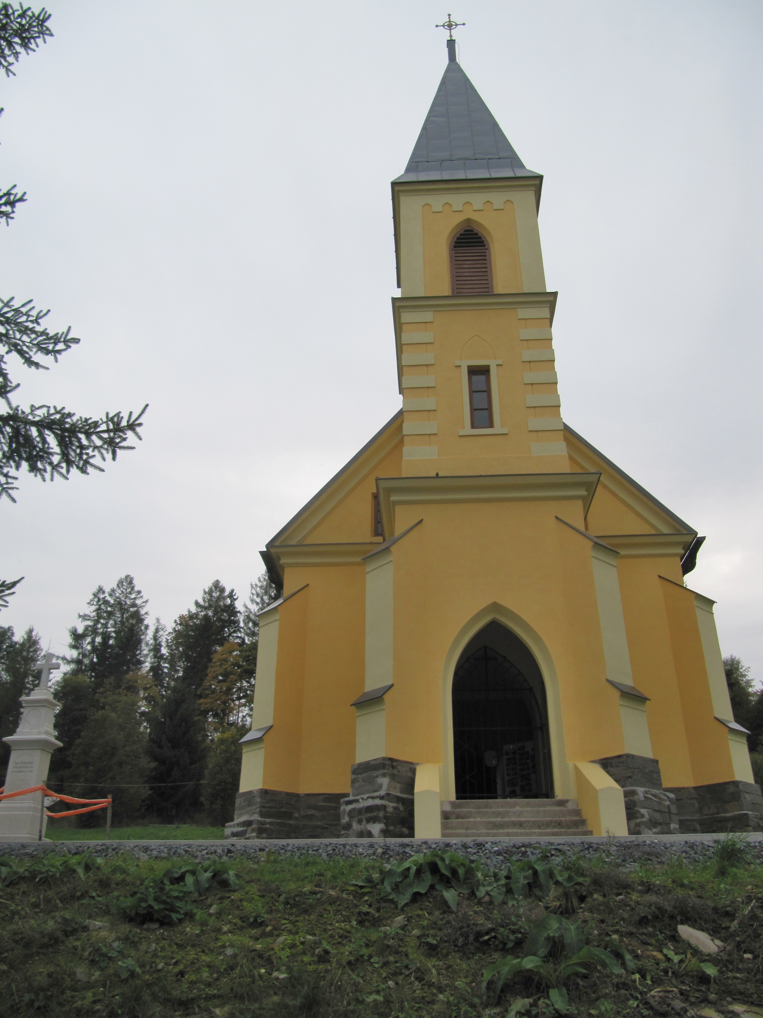 Břidličná, Bruntál District, Czech Republic, part Vajglov.